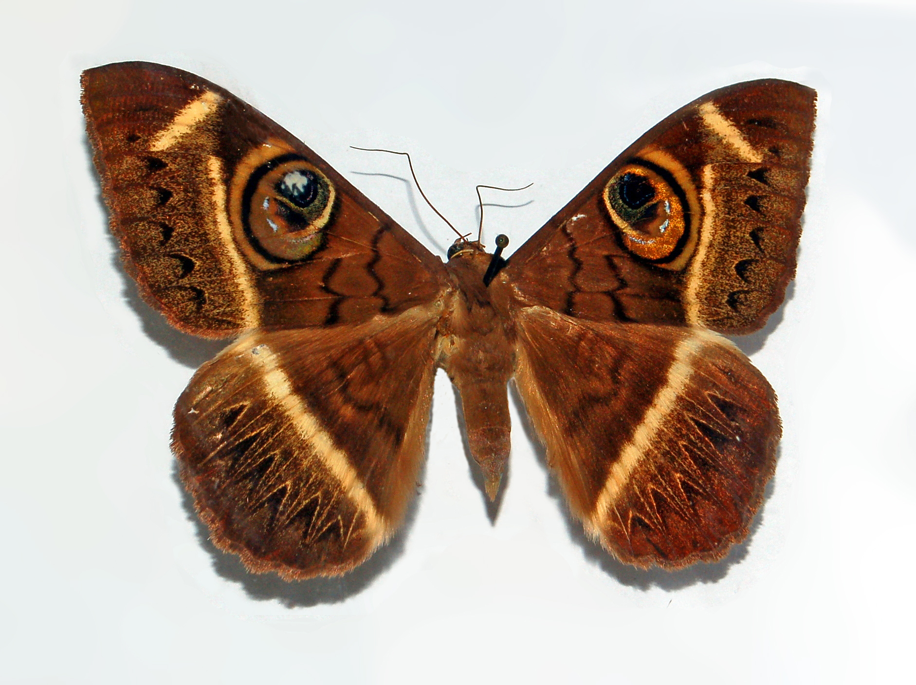 Cyligramma latona. Mounted specimem